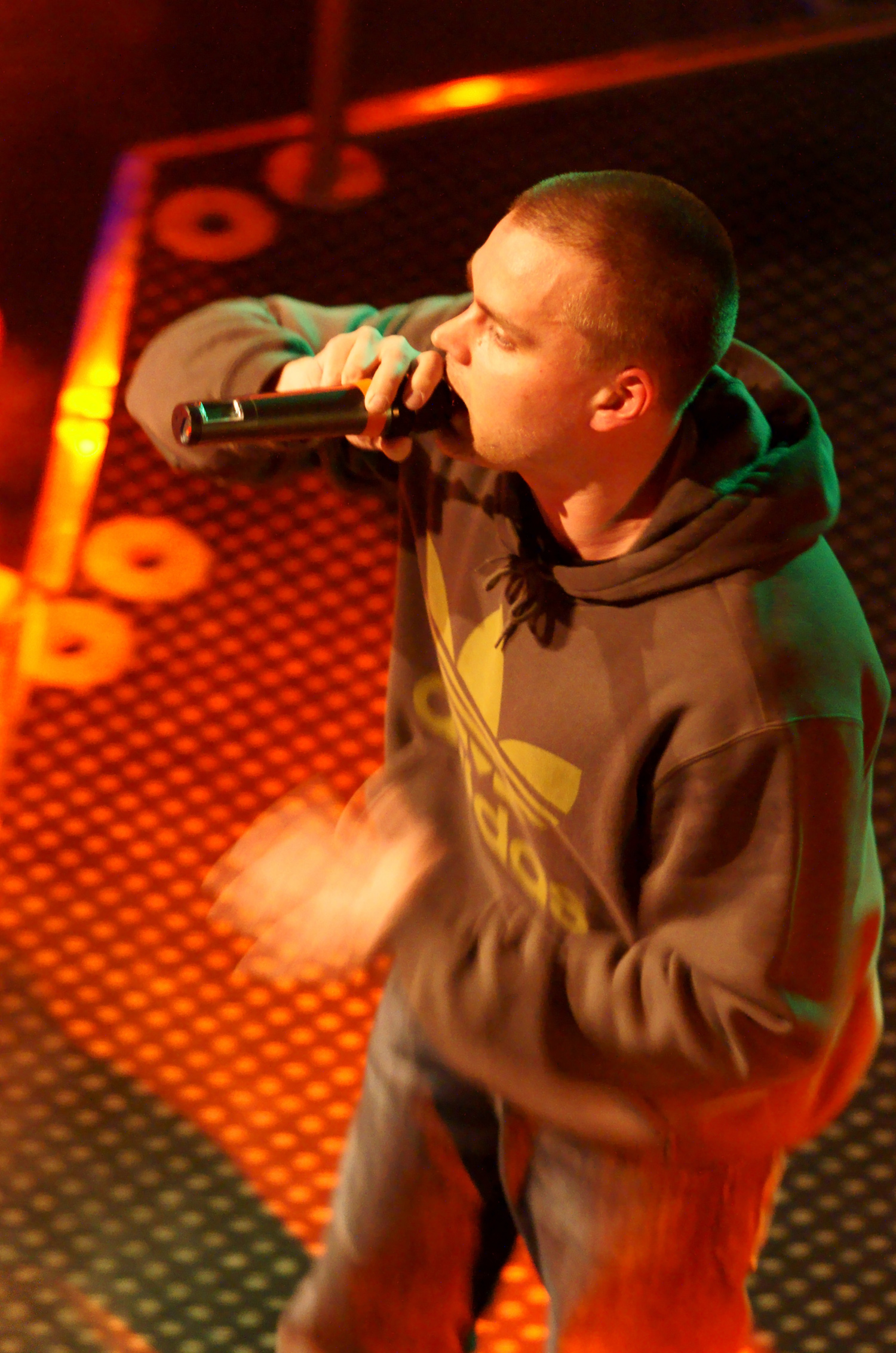 Est from Lord Est performing at Bar Kino, Pori, Finland.